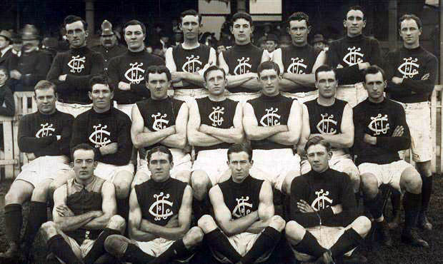 The Carlton FC that won the premiership, photographed at the old East Melbourne Cricket Ground.